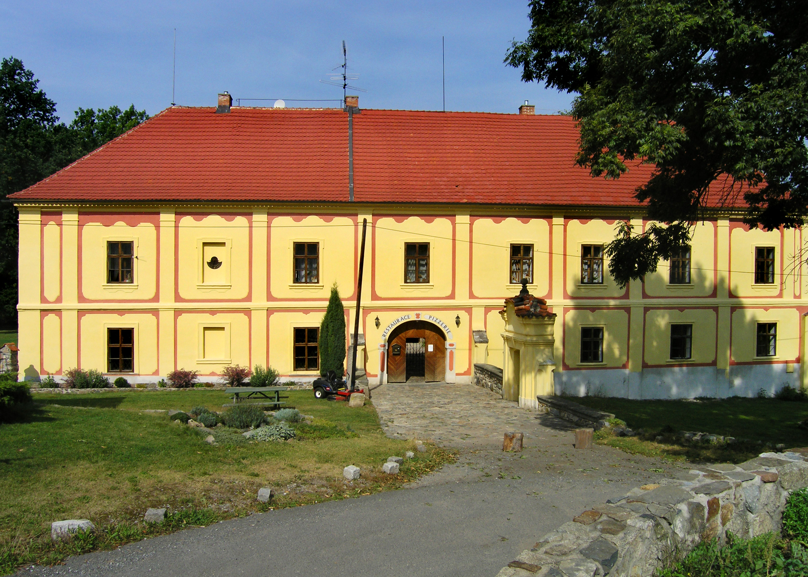 Castle in Lešany, Czech Republic